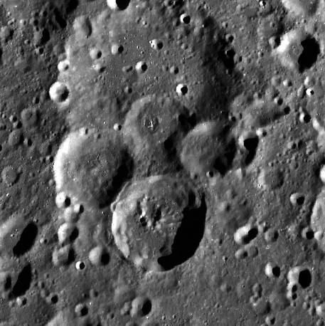 LROC . "Cat paw" crater. Woltjer is below center. Montgolfier is the large crater above center.